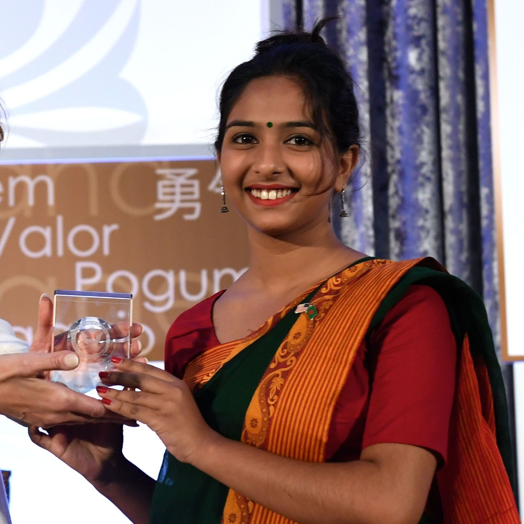 Sharmin Akter at the International Women of Courage Award 2017 "First Lady Melania Trump poses for a photo with 2017 International Women of Courage Awardee Sharmin Akter of Bangladesh during a ceremony at the U.S. Department of State in Washington, D.C., on March 29, 2017." "At only 15 years of age, Sharmin Akter courageously resisted her mother's attempts to marry her off and secured the precious right to continue her education, setting an example for teenage girls across South Asia facing similar pressures. Bangladesh has one of the world's highest rates of child marriage, a trend that threatens the health, safety, and education of millions of girls and undermines the country's progress. Sharmin demonstrated exceptional courage and self-possession by refusing to be coerced into marrying a man who is decades older than her. She dared to break the silence expected of women and girls and advocated for her rights, eventually bringing her mother and prospective husband to justice. Celebrated for her bravery, Sharmin today is a student at Rajapur Pilot Girls High School where she dreams of becoming a lawyer to campaign against the harmful tradition of early and forced marriage." [1]